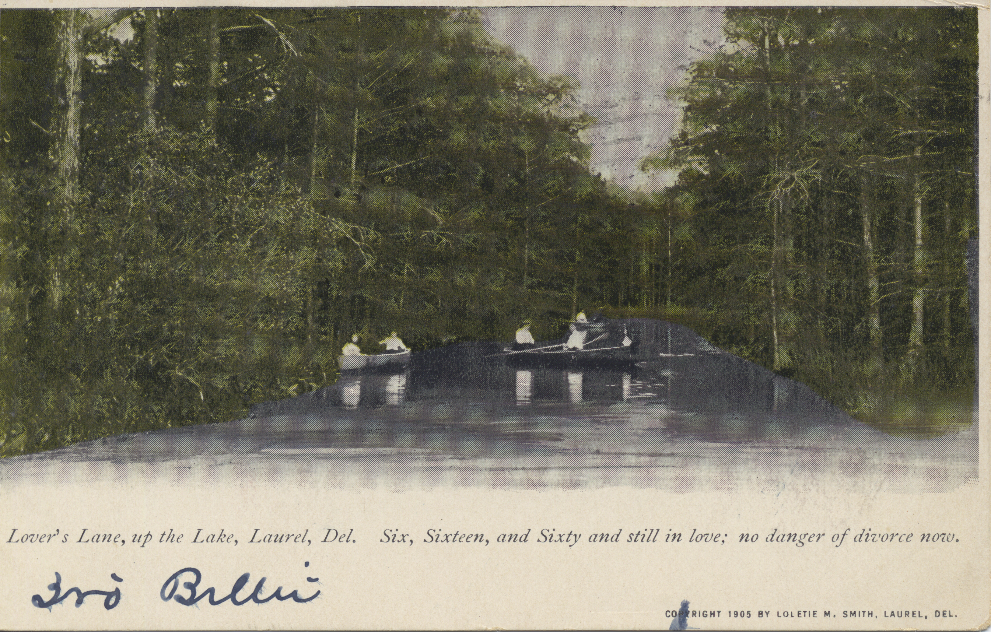 Persistent URL: Subject (TGM): Lakes and ponds; Boats; Nature